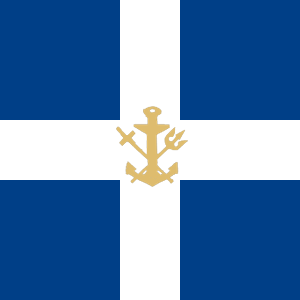 Cyprus Naval Jack